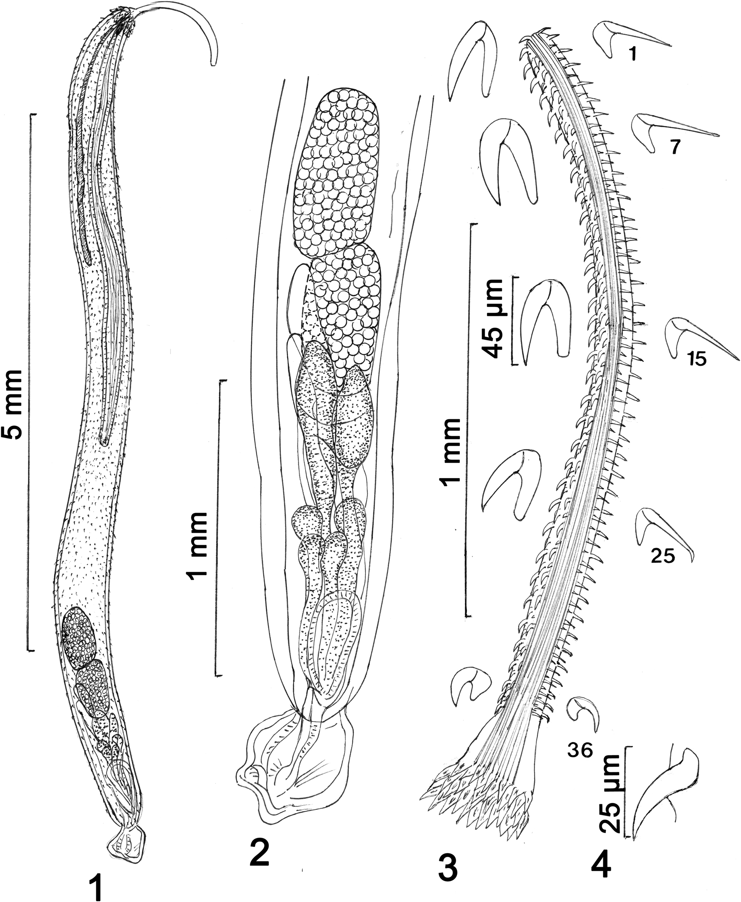 Figs 1-4 of the paper. Line drawings of males of Cathayacanthus spinitruncatus from Leiognathus equulus in Vietnam. (1) A paratype male; note the very long proboscis receptacle compared to the trunk. The dots are trunk spines. (2) The reproductive system of specimens in Figure 1; note the posterior position of the reproductive system and the two larger anterior cement glands and the cluster of four posterior glands. Trunk spines not shown. (3) The proboscis of a male specimen and a representative sample of enlarged dorsal (right) and ventral (left) hooks numbered from anterior. (4) A trunk spine from the mid-trunk area.